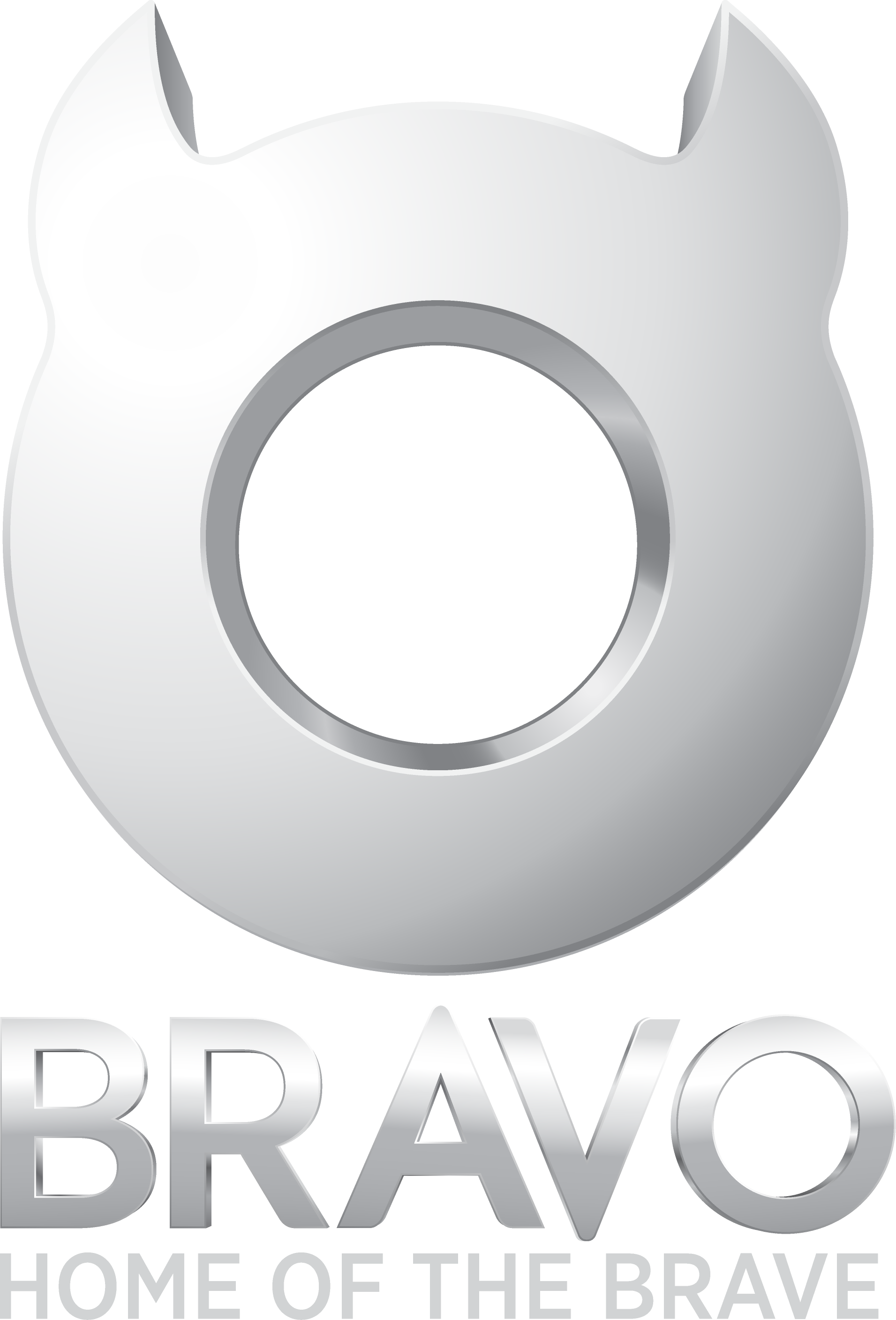 The logo Updated and with slogan Home of the Brave.